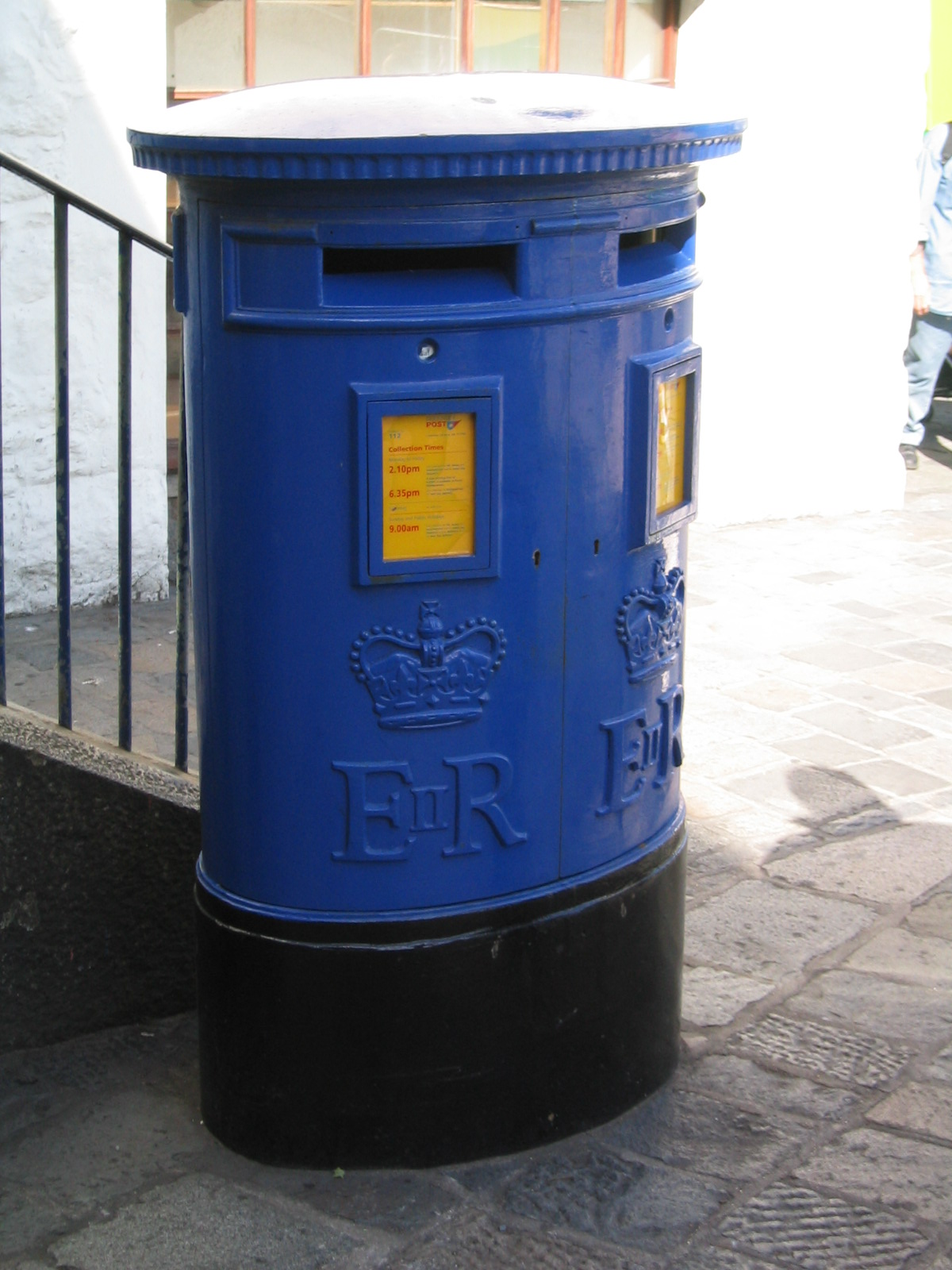 Type C Elizabeth II post box of the Guernsey Post, in St Peter Port, Guernsey. Category:Images of Guernsey